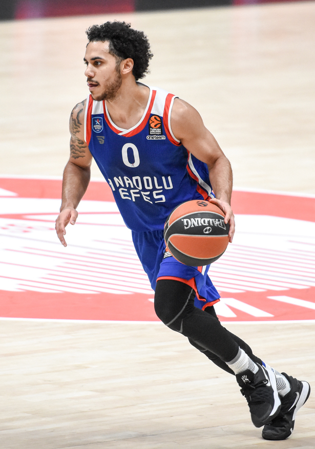 Foto a cura di Claudio Degaspari